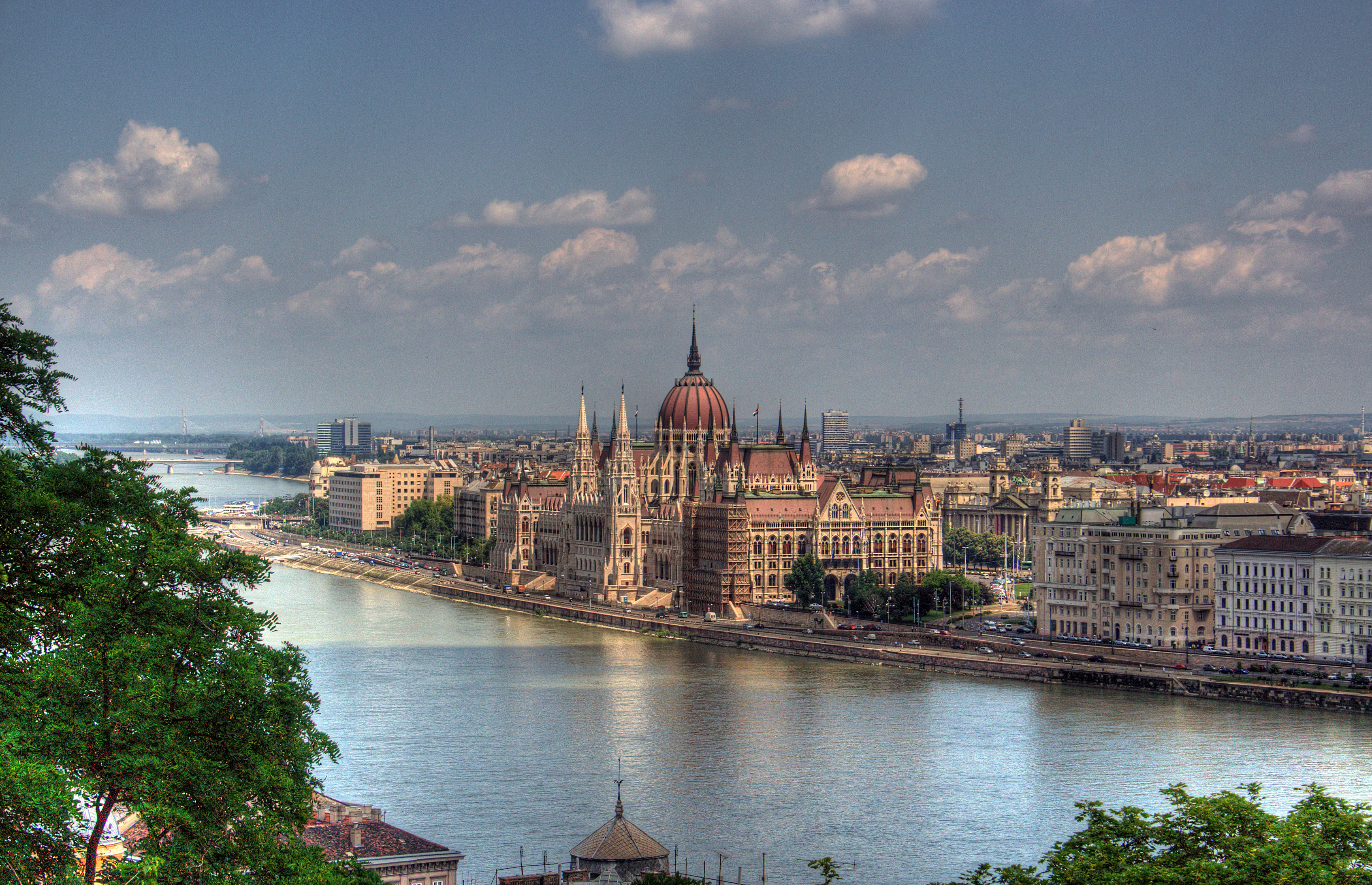 Hungarian parlament Building, Budapest, Hungary.